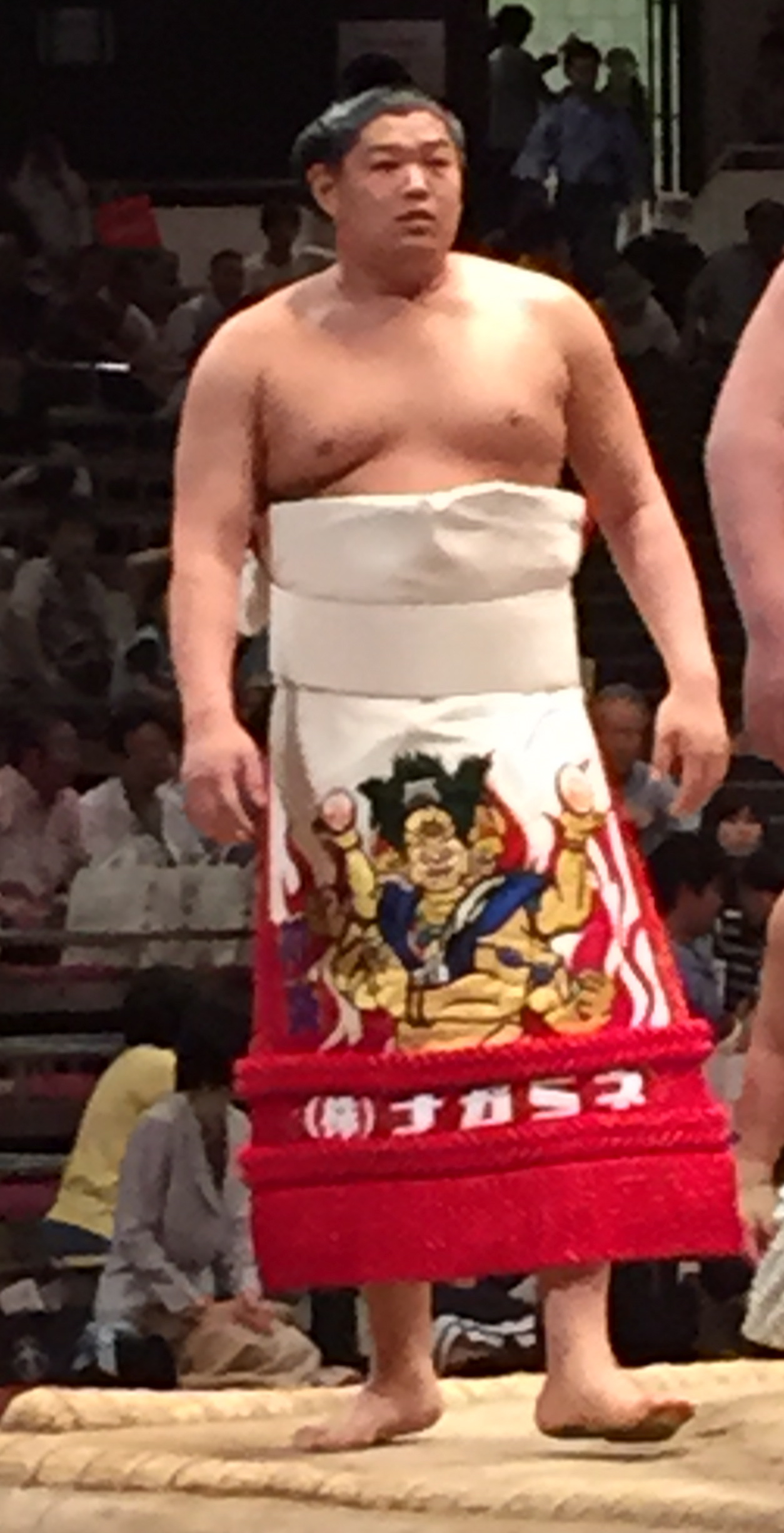 Taken at May tournament 2015